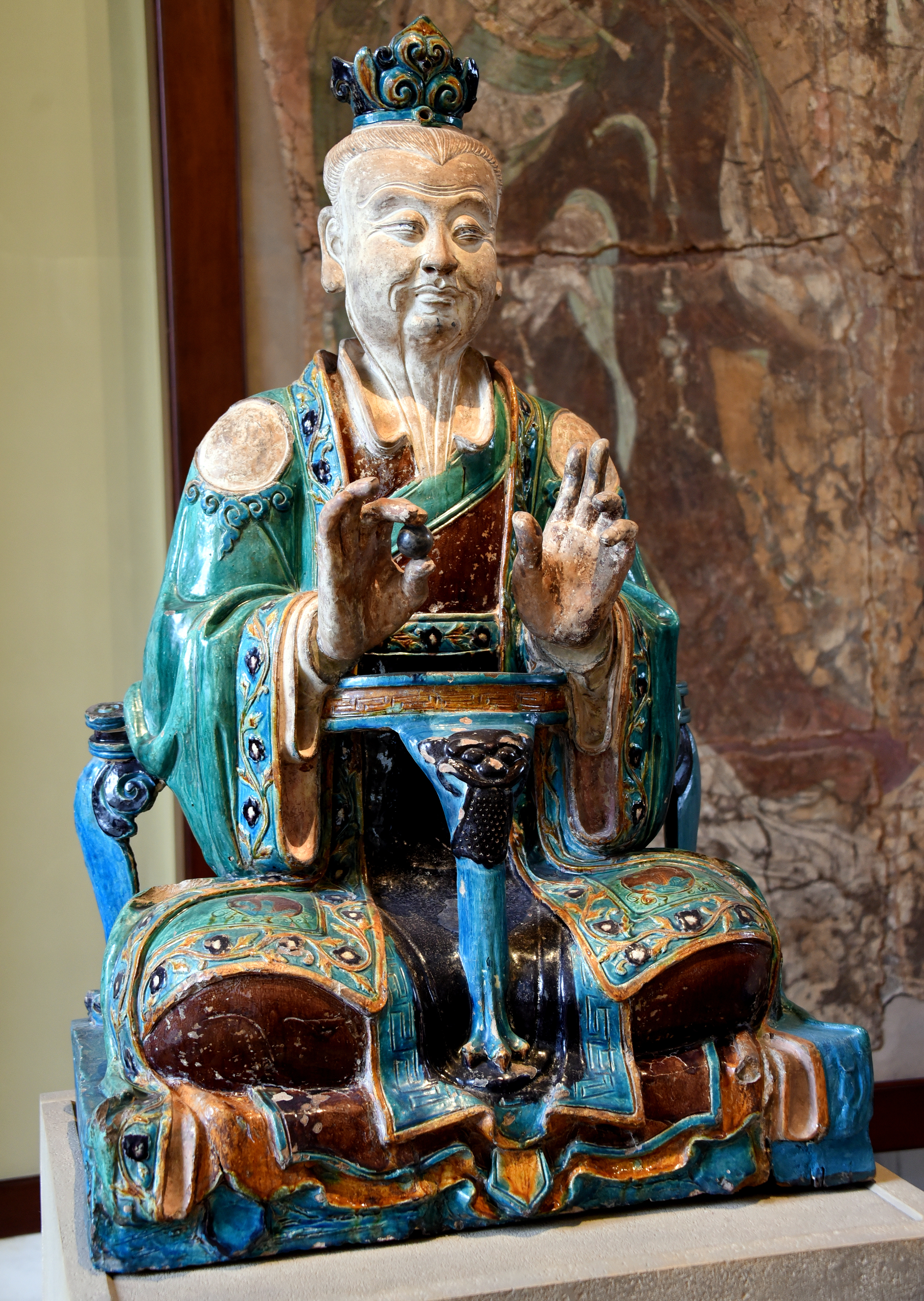 Stoneware figure of a Daoist deity with green, turquoise, purple, and ochre glazes. Daoist deities were modeled on their Buddhist counterparts. It is distinguished from the Buddhist deities by its hat, throne, and beard (Buddhas were always shaven). From the People's Republic of China. Ming Dynasty, 16th century CE. On display at the British Museum in London.